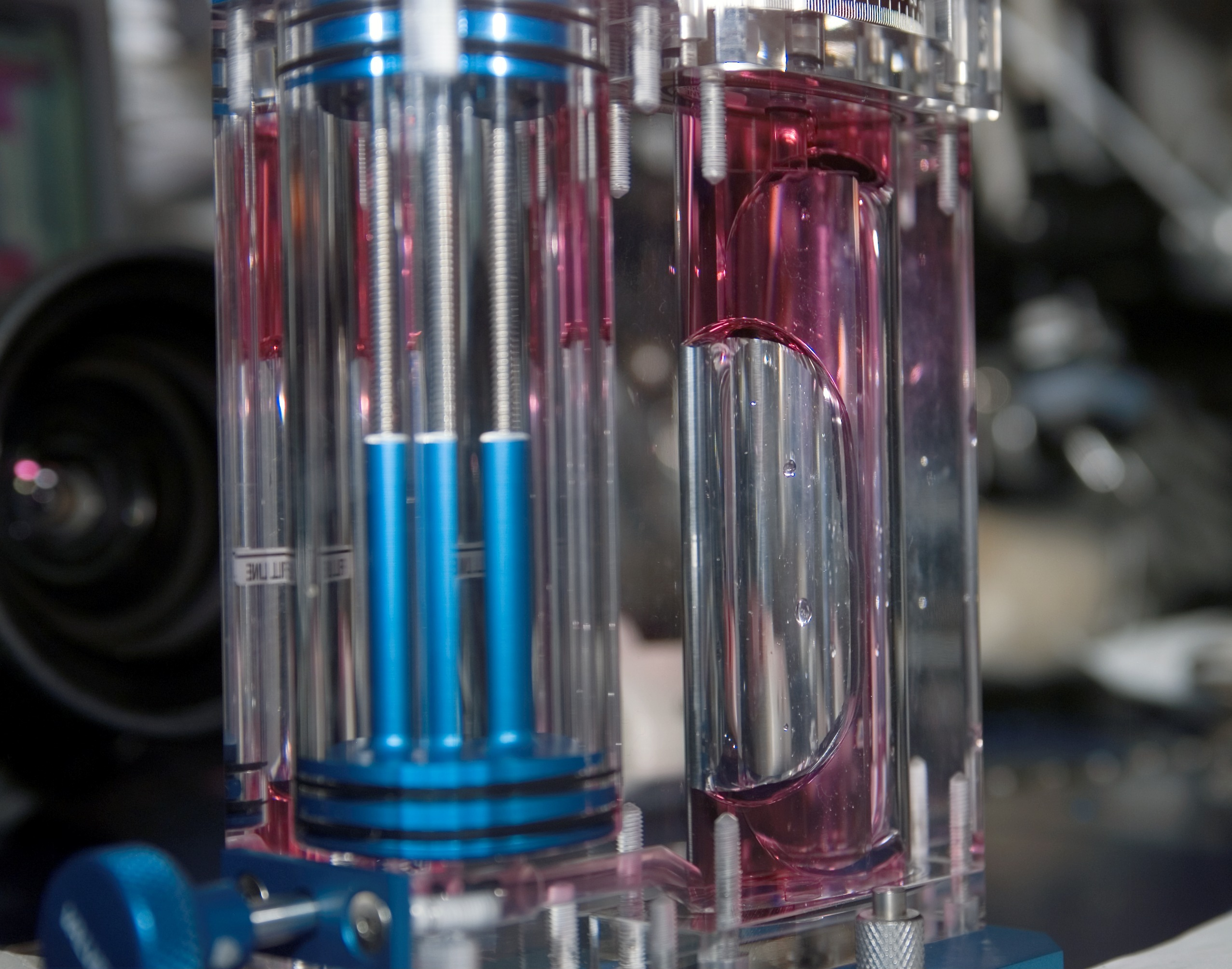 View of Capillary Flow Experiment (CFE) in the U.S. Laboratory/Destiny. The purpose of this experiment is to investigate capillary flows and phenomena onboard the International Space Station (ISS). A video camera is set up to record the behavior of silicone oil in the Contact Line (CL) unit. Photo was taken during Expedition 15.